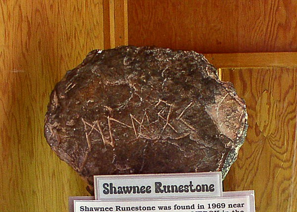 The supposed Shawnee Runestone